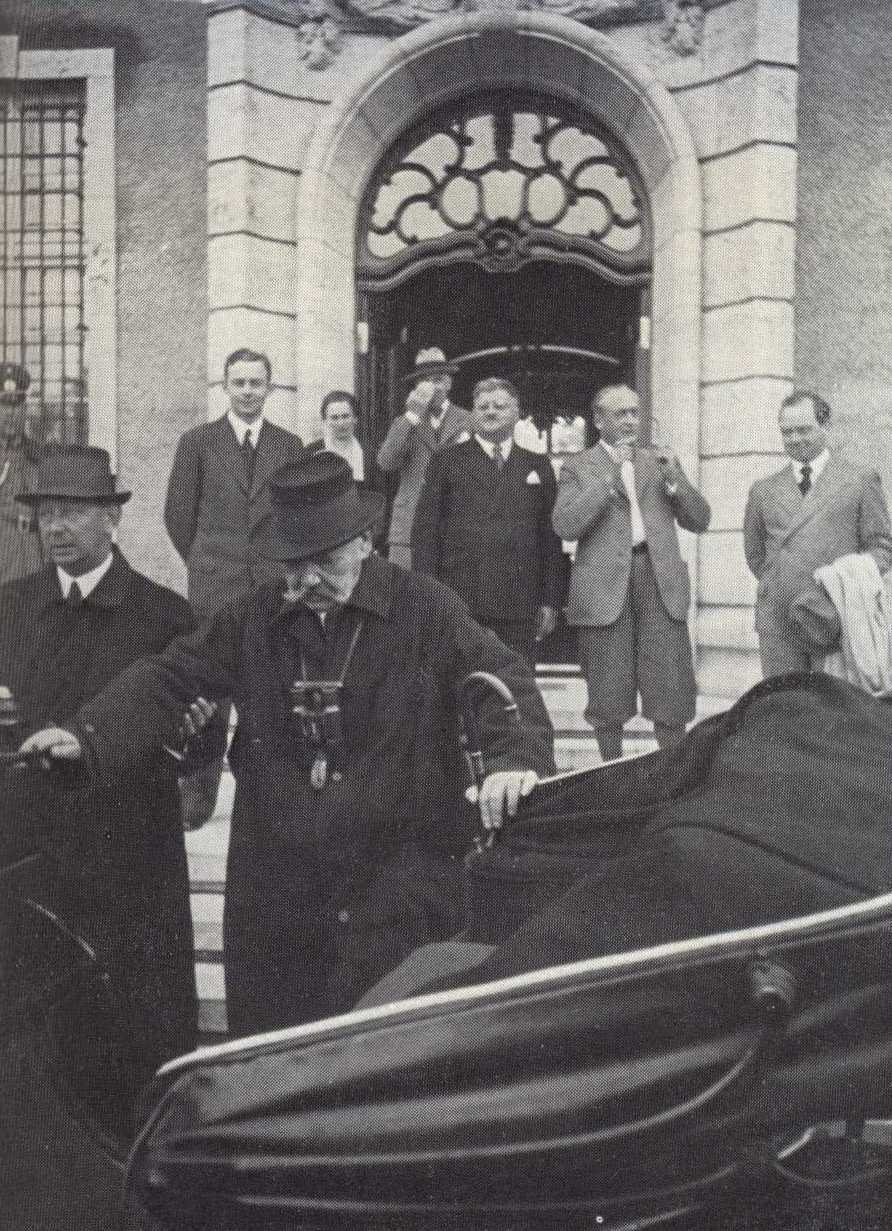 Paul von Hindenburg in early 1934. Depicted whilst getting in his car in order to leave his mansion in Neudeck, East Prussia. In the foreground: Hindenburg's son Oskar helping his father into the car. In the Background: Hindenburg's aide de camp von der Schulenburg, von Tschirschky (assistant to Vice-Chancellor von Papen), Margarete von Hindenburg (Hindenburgs daughter in law), Vice-Chancellor von Papen, Secretaries of State Meissner, Riedel and Körner.